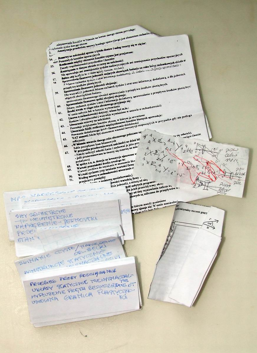 cheat list